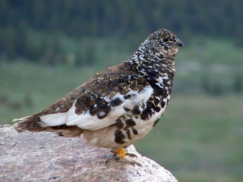 White-tailed Ptarmigan, Lagopus Leucura. Mt. Evans, Colorado.